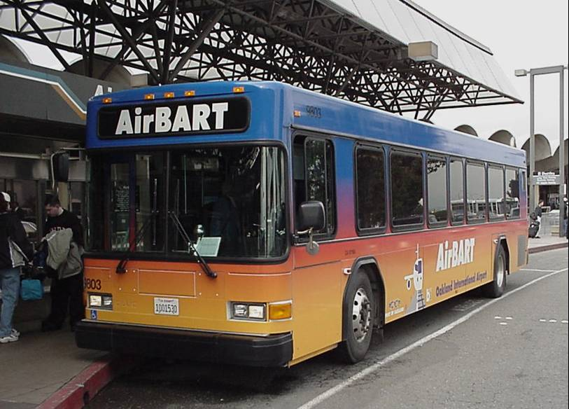 AirBART bus at Oakland International Airport around 2008